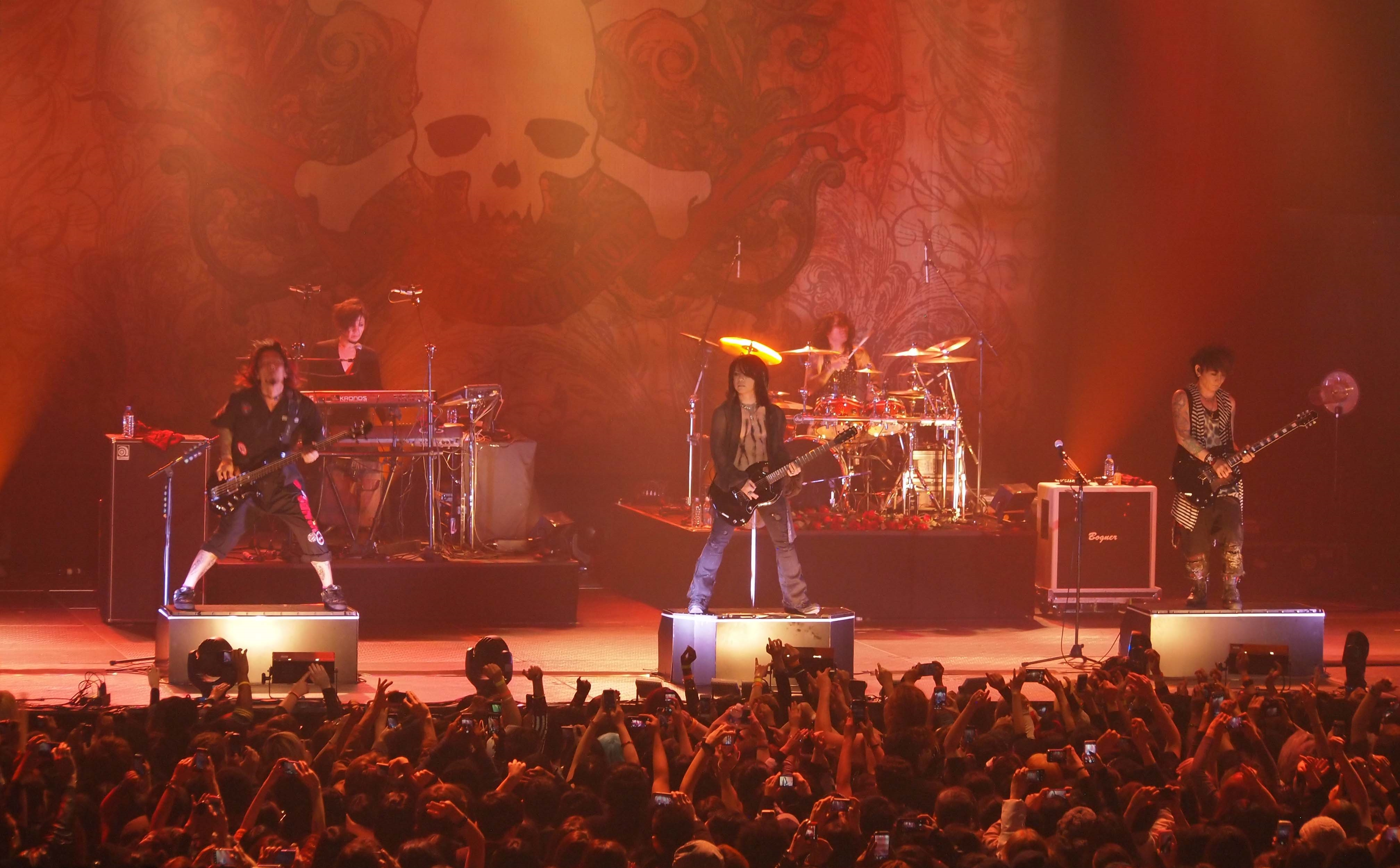 Vamps performing at the Roseland Ballroom in New York City on December 8, 2013.